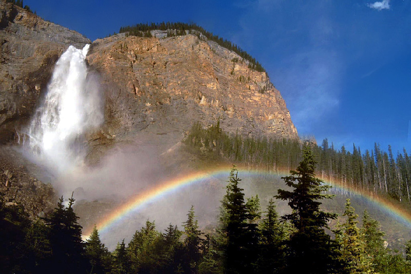 Rainbows can often be seen in the spray and mist coming from larger waterfalls, as here at Takakkaw Falls, Canada. Photo by Michael Rogers, 2004, who retains copyright and releases the image under the GFDL.